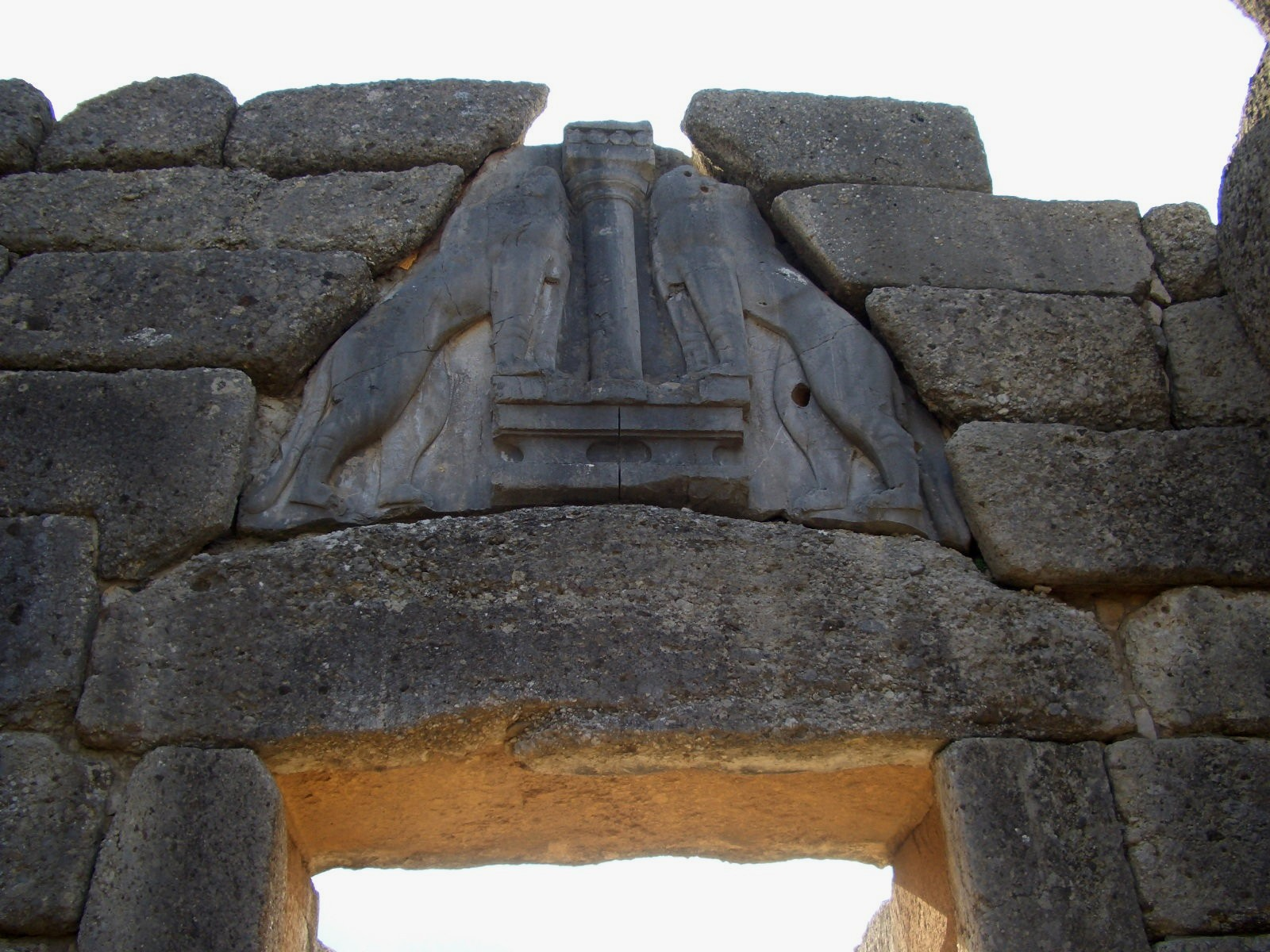 Mycenae Lion gate Photo taken 22.10.05